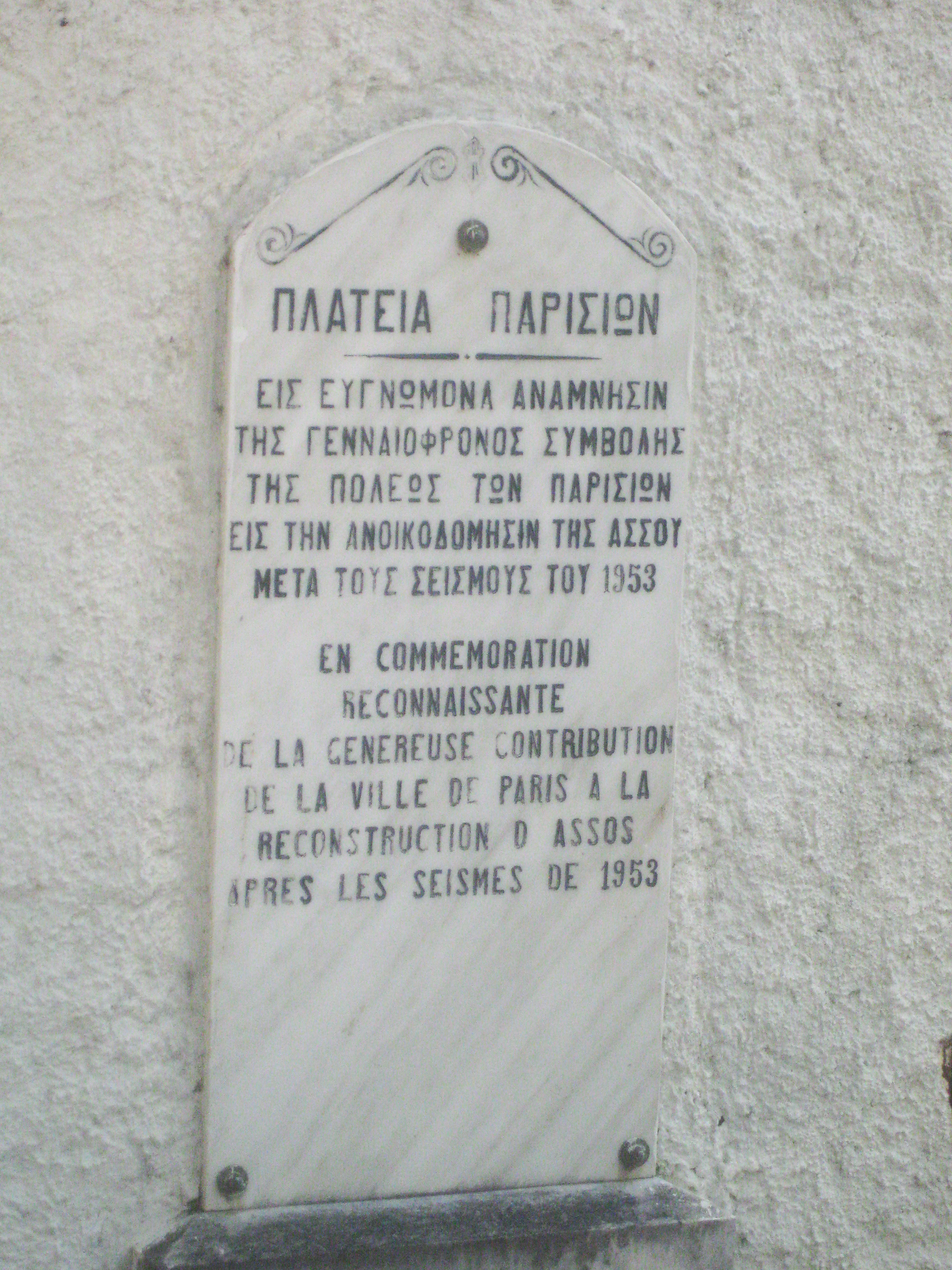 The Paris place in Assos